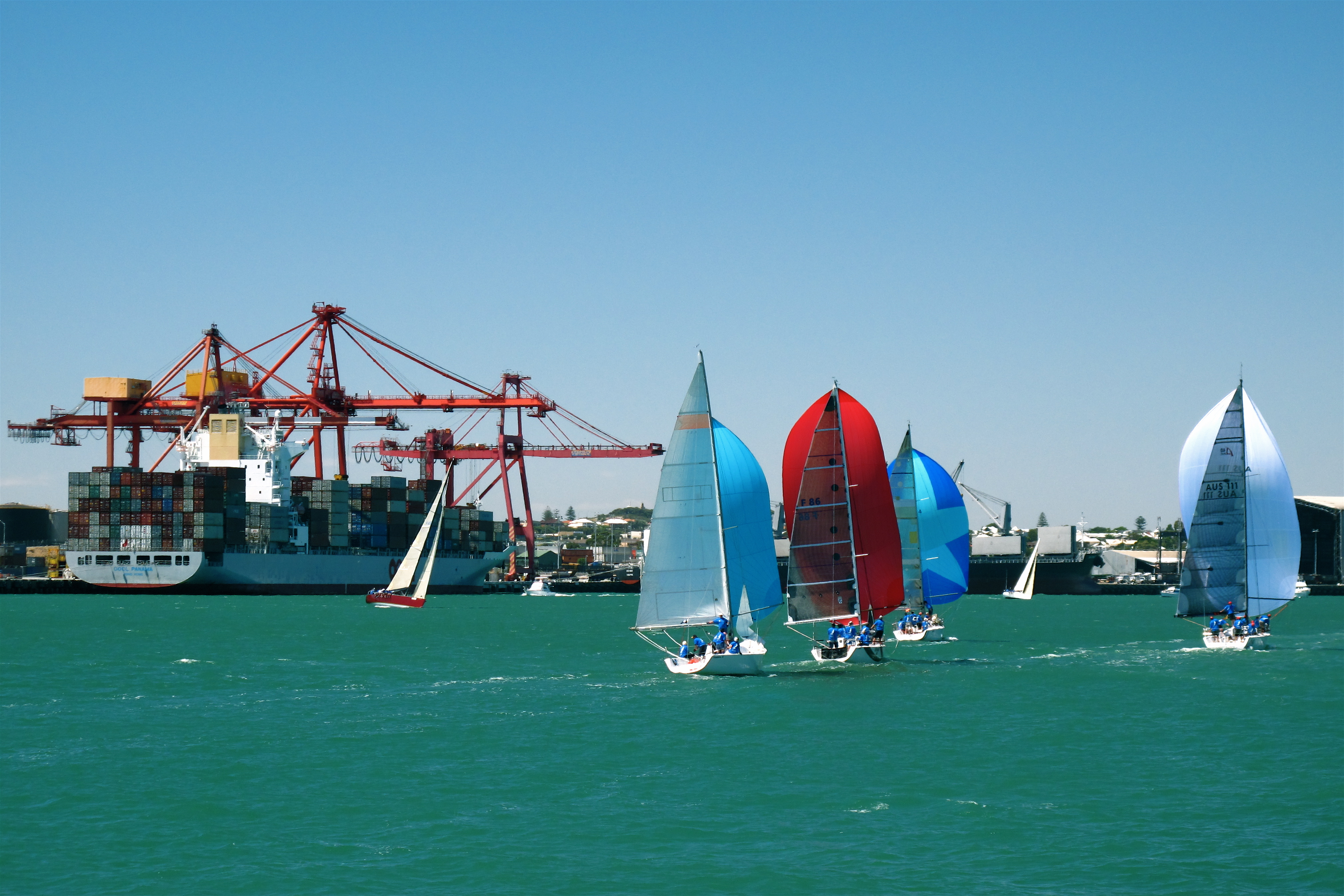 Yachts race in the 2010 Club Marine Fremantle Harbour Classic